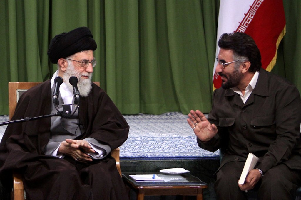 Farajollah Salahshoor beside Ayatollah Ali Khamenei the Leader of Iran. Salahshoor was an Iranian film director who directed several popular religious films and TV series